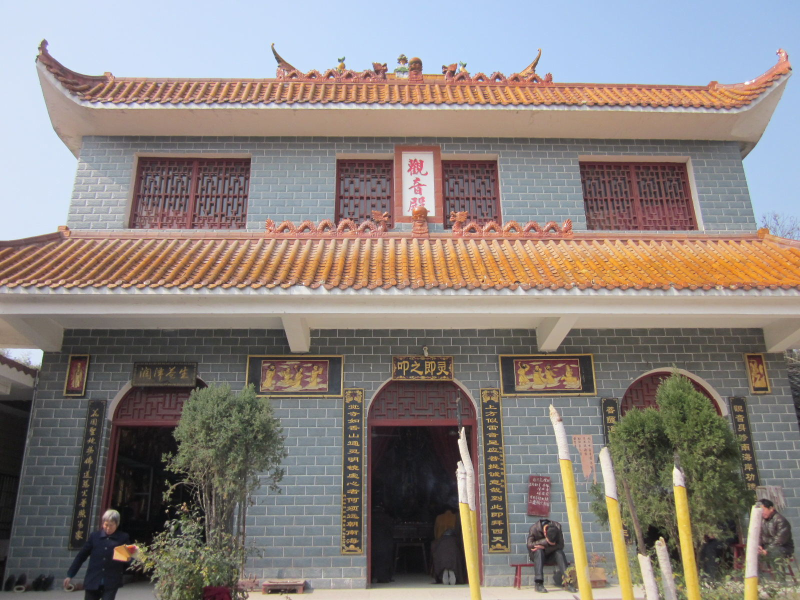 The Guanyin Hall at Shangliu Temple, in Ningxiang County, Hunan, China.